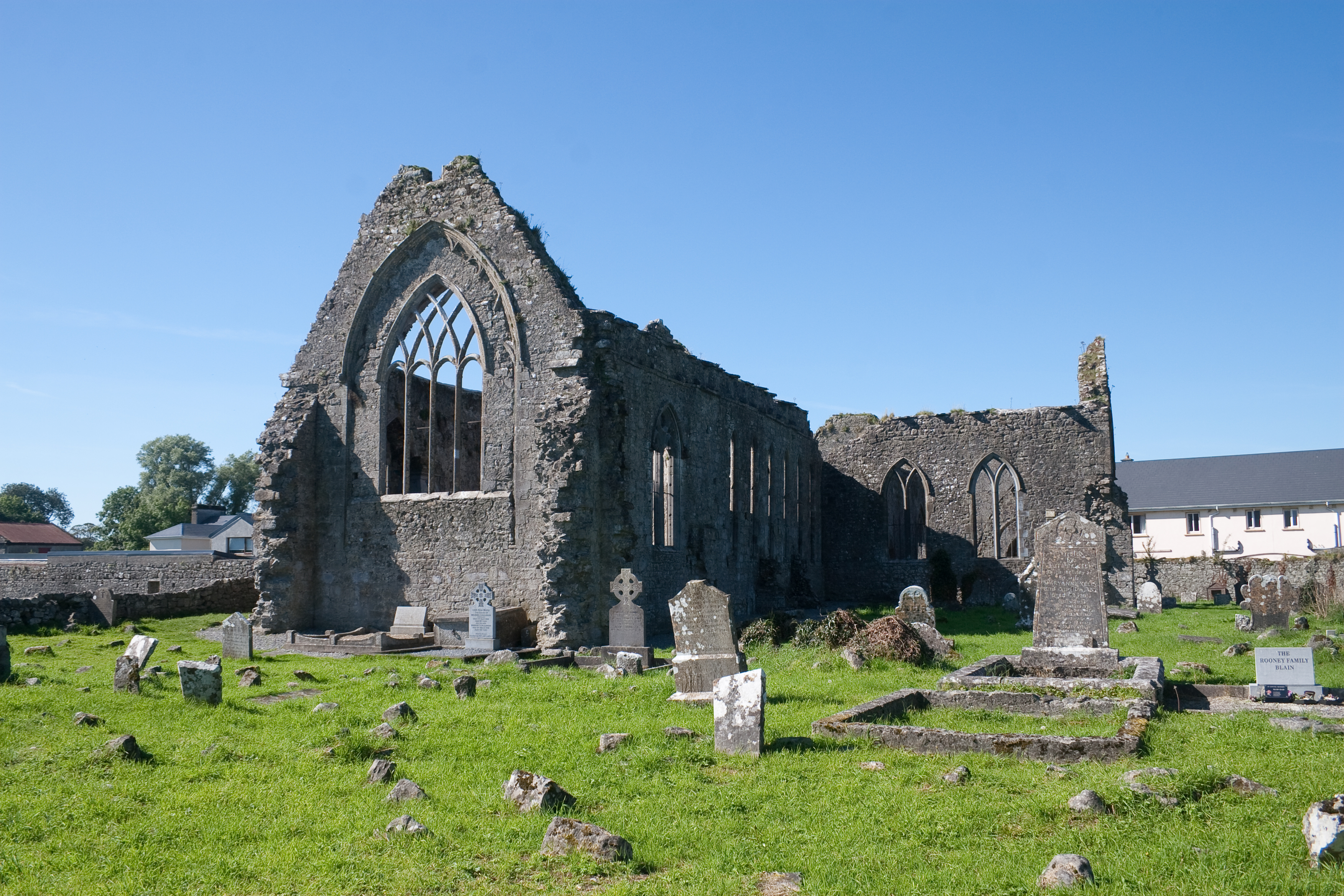 Athenry, County Galway, Ireland North-east view of Athenry Priory